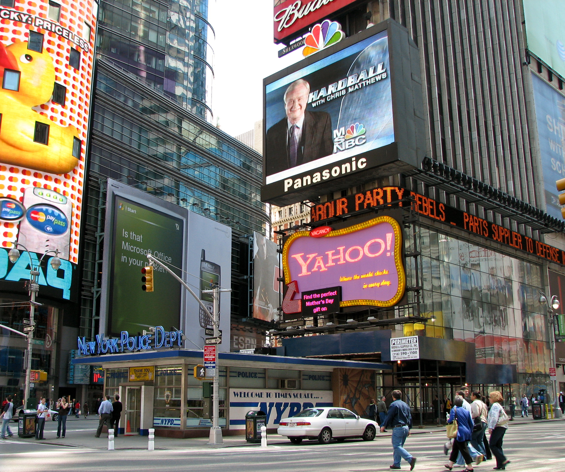 New York City - Times Square - New York Police Dept (NYPD)